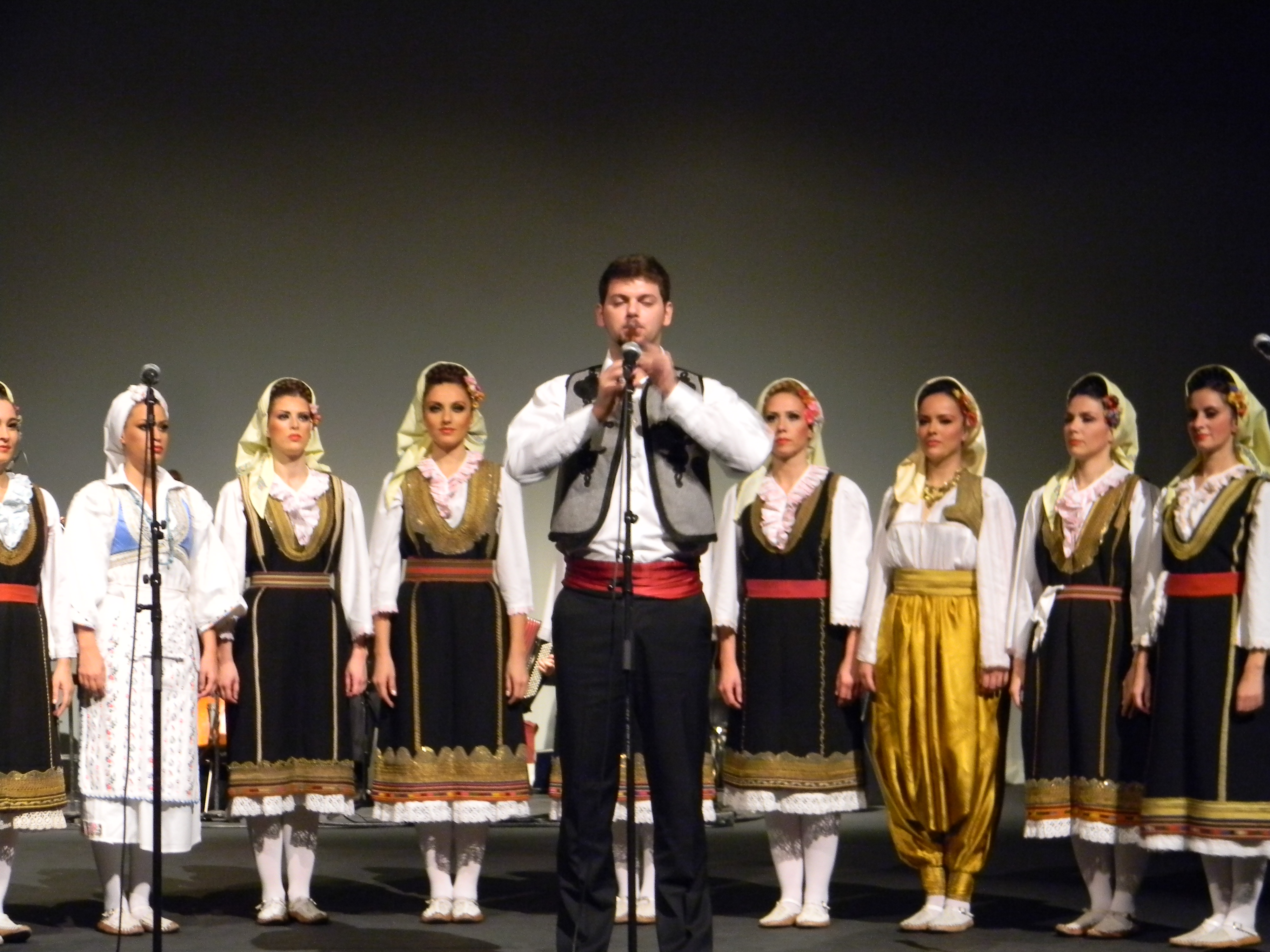 Marko Kojadinovic-The Serbian National Folk Dance Ensemble Kolo in Hamilton, Ontario, Canada 2011